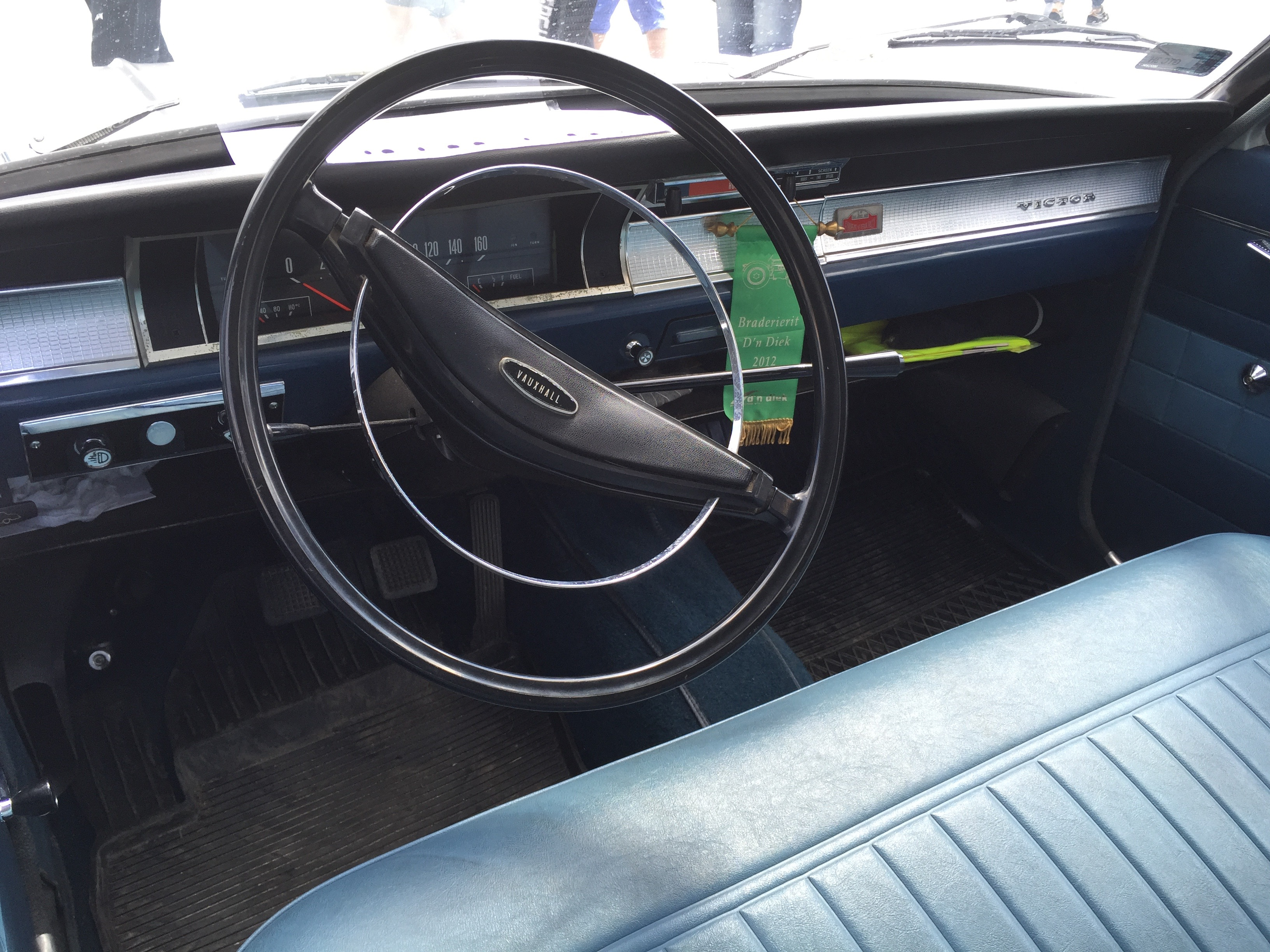 Vauxhall Victor FC four-door sedan. Photographed at plac Przyjaciół Sopotu in Sopot, Poland.